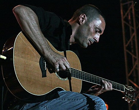 Alex Britti